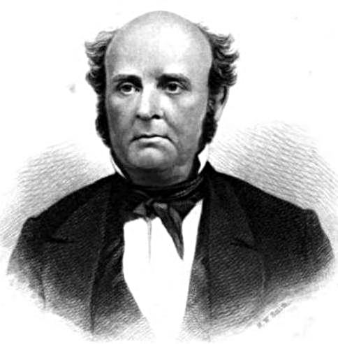 Zeno Scudder, US Representative from Massachusetts